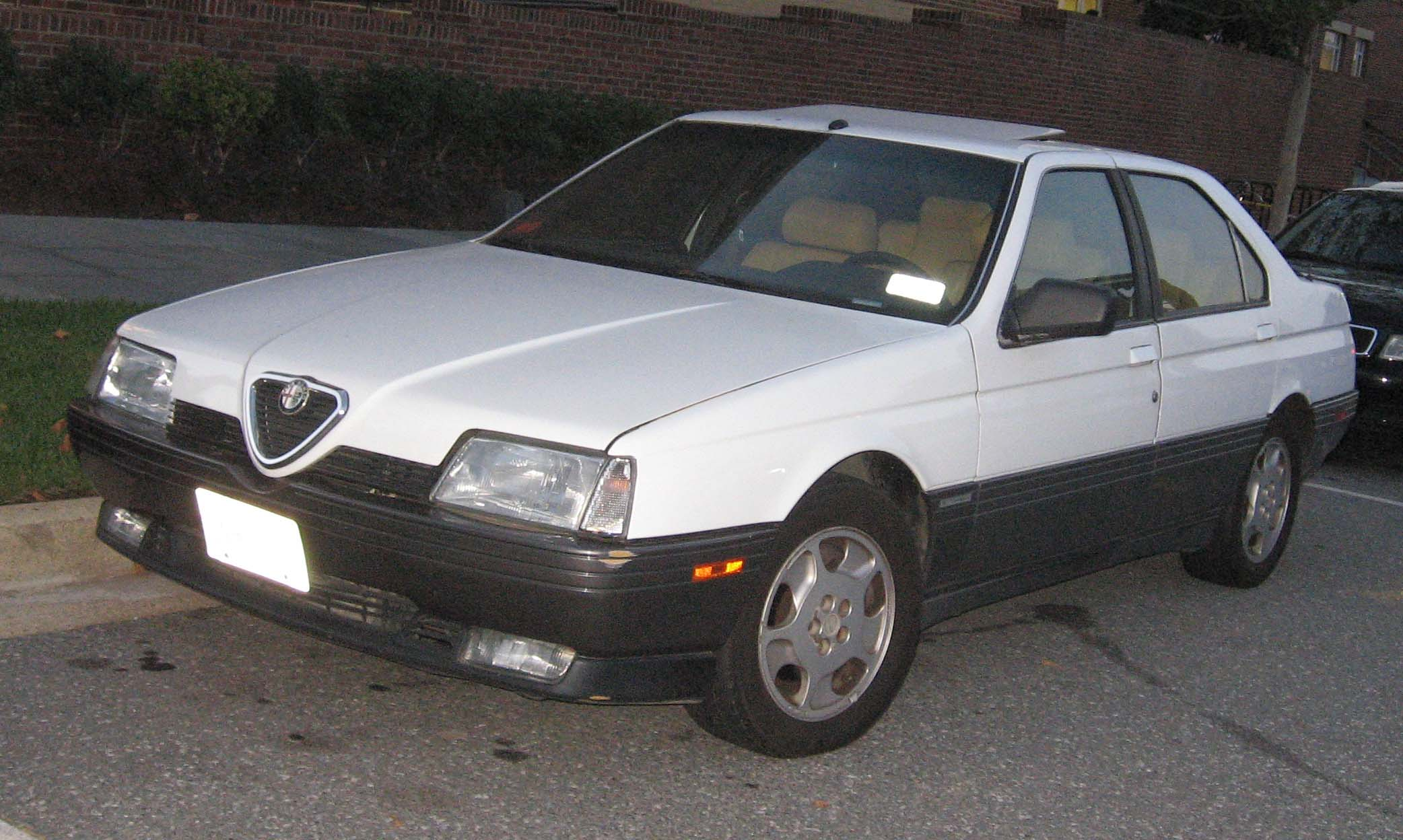 Alfa Romeo 164 photographed in College Park, Maryland, USA.